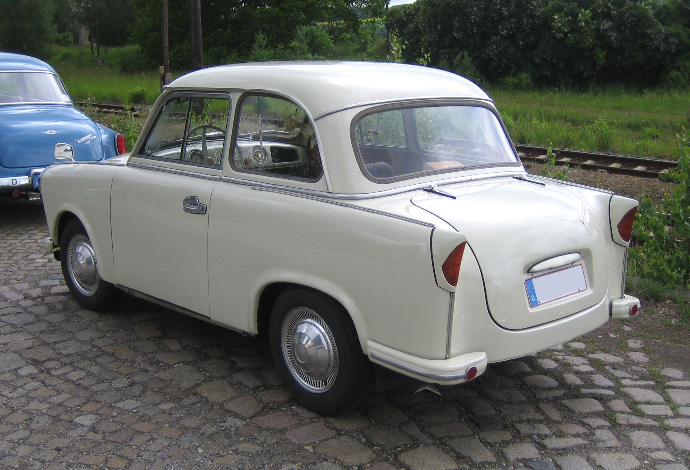 Trabant P50 (rear view)